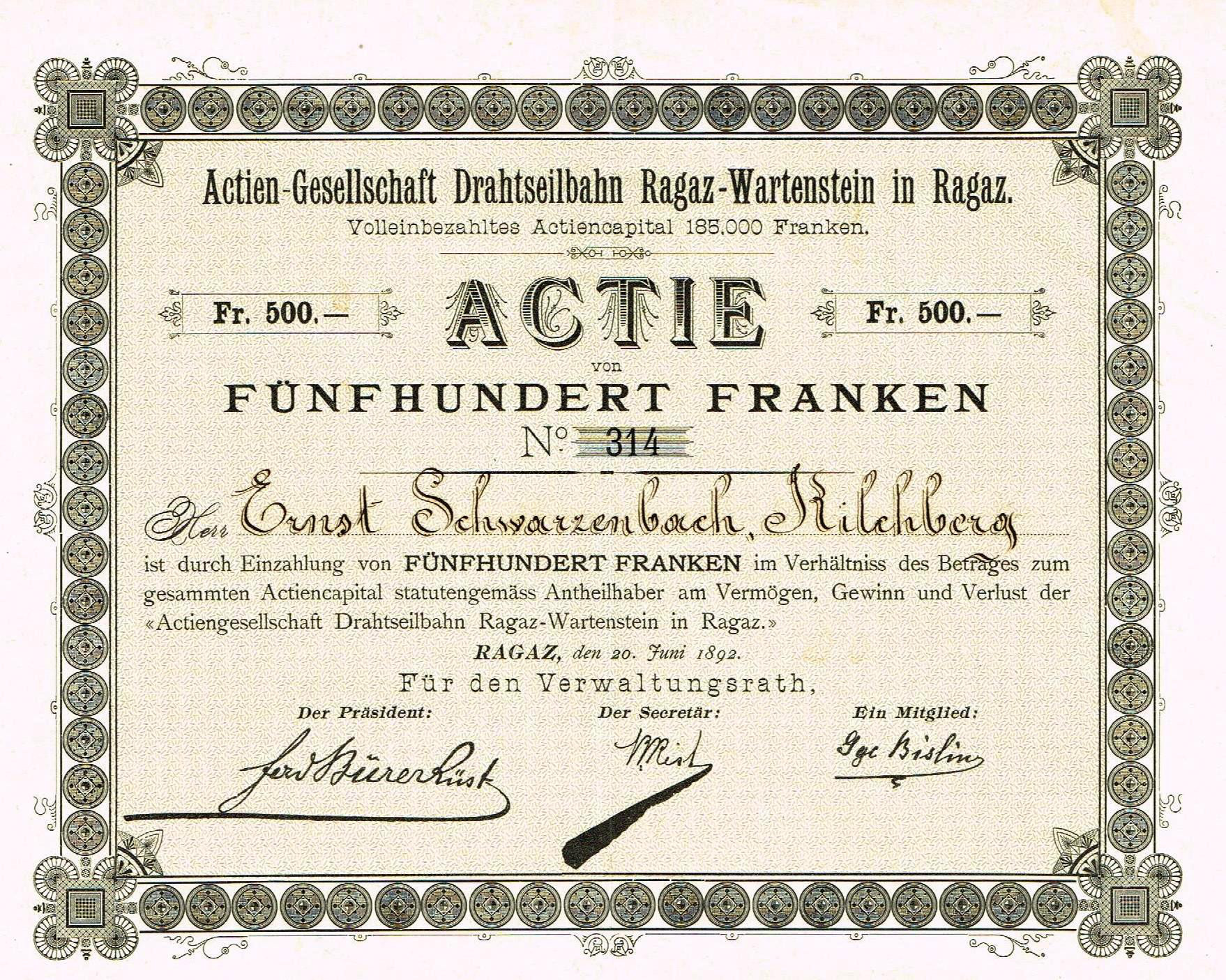 Share of the Drahtseilbahn Ragaz-Wartenstein, issued 20. June 1892